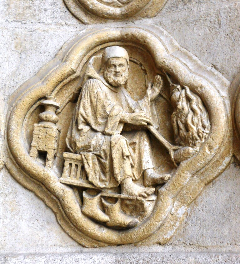 Amiens, an anachorete